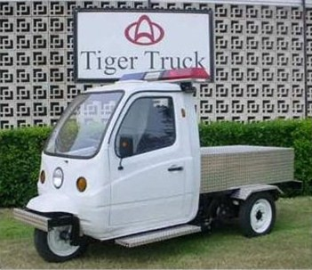 Three-wheel tiger truck in front of logo.